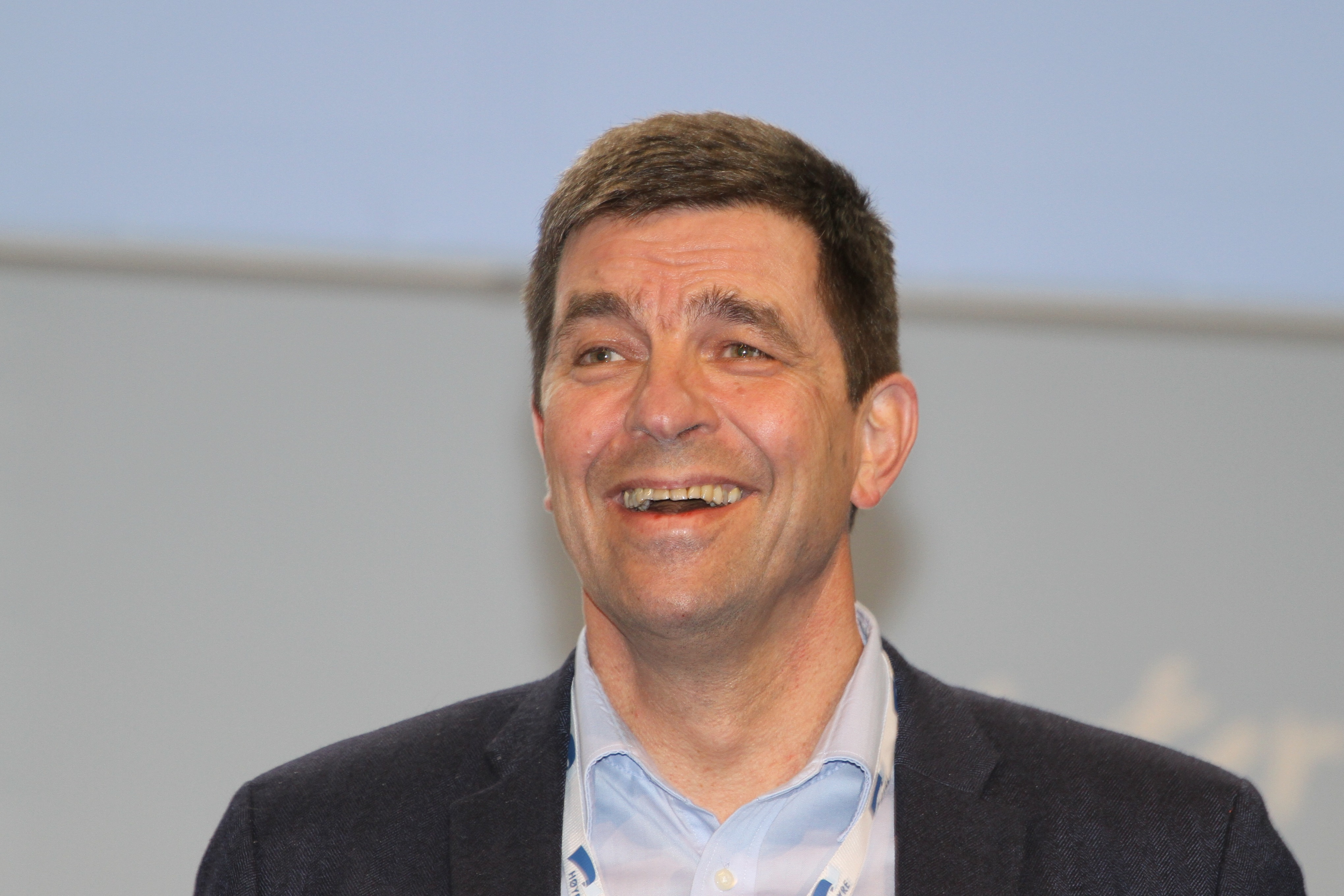 Gunnar Gundersen